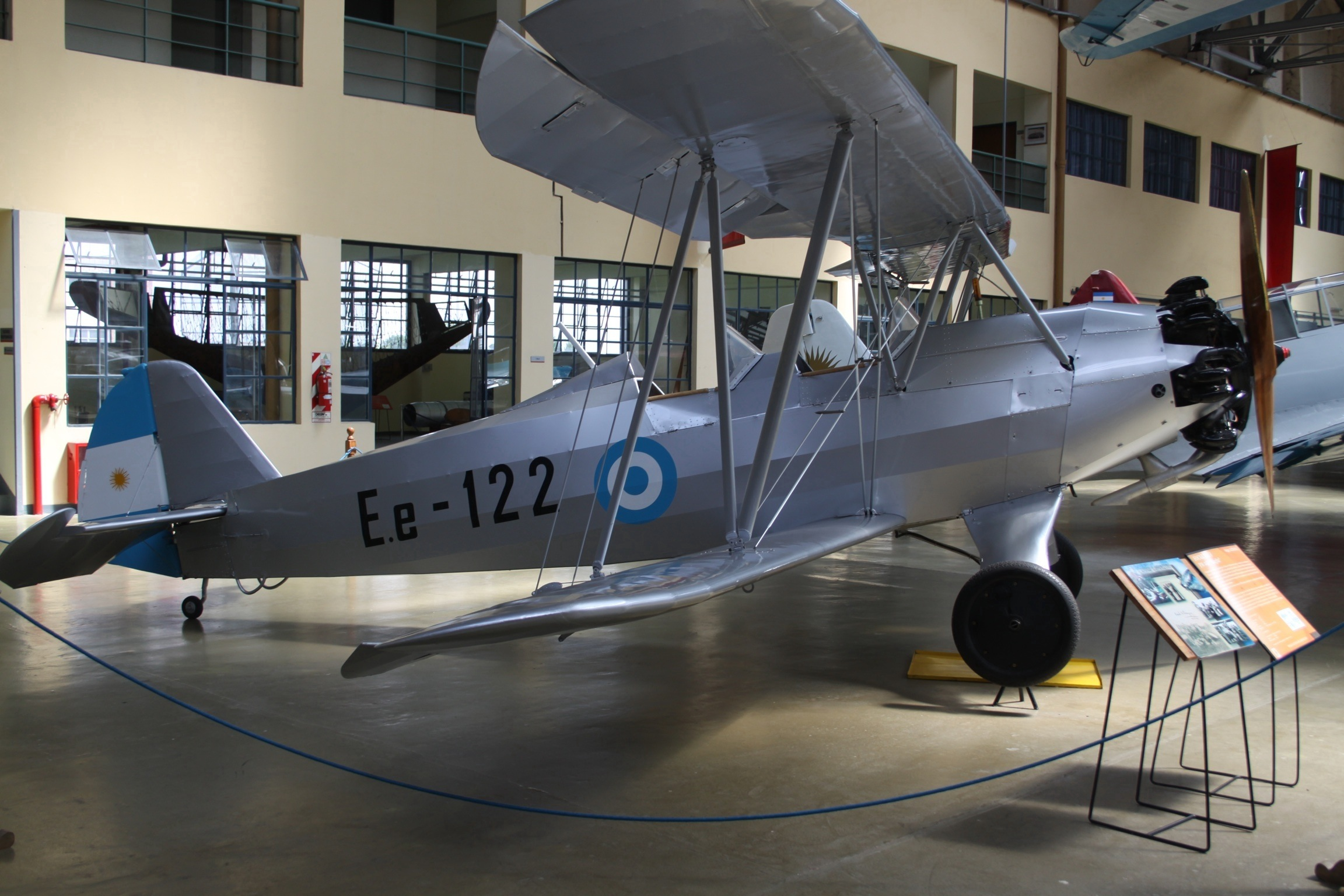 At Moron Museo Nactional De Aeronautica